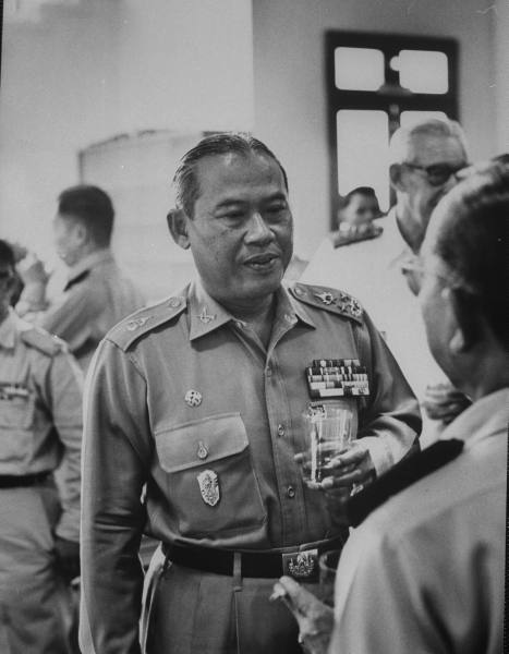 General Thanom Kittikachorn (later Field Marshal and Prime Minister of Thailand).